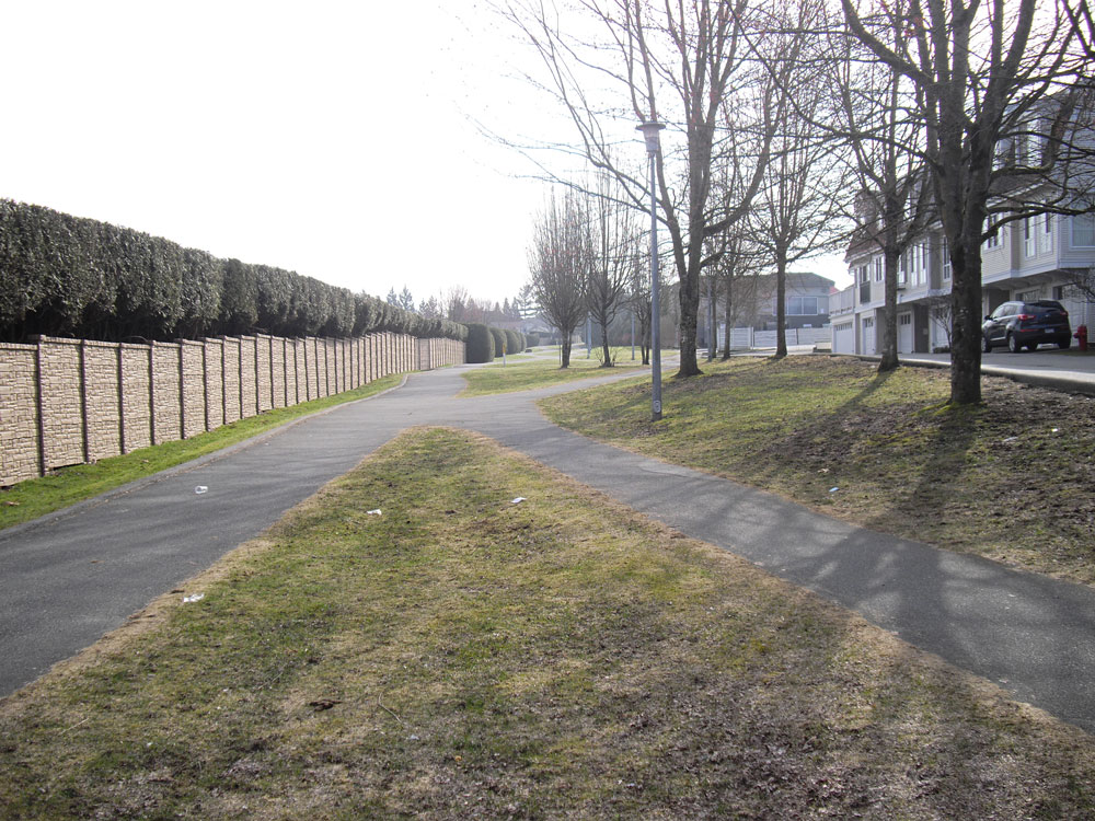 Greenway in Walnut Grove Neighbourhood - Langley, BC